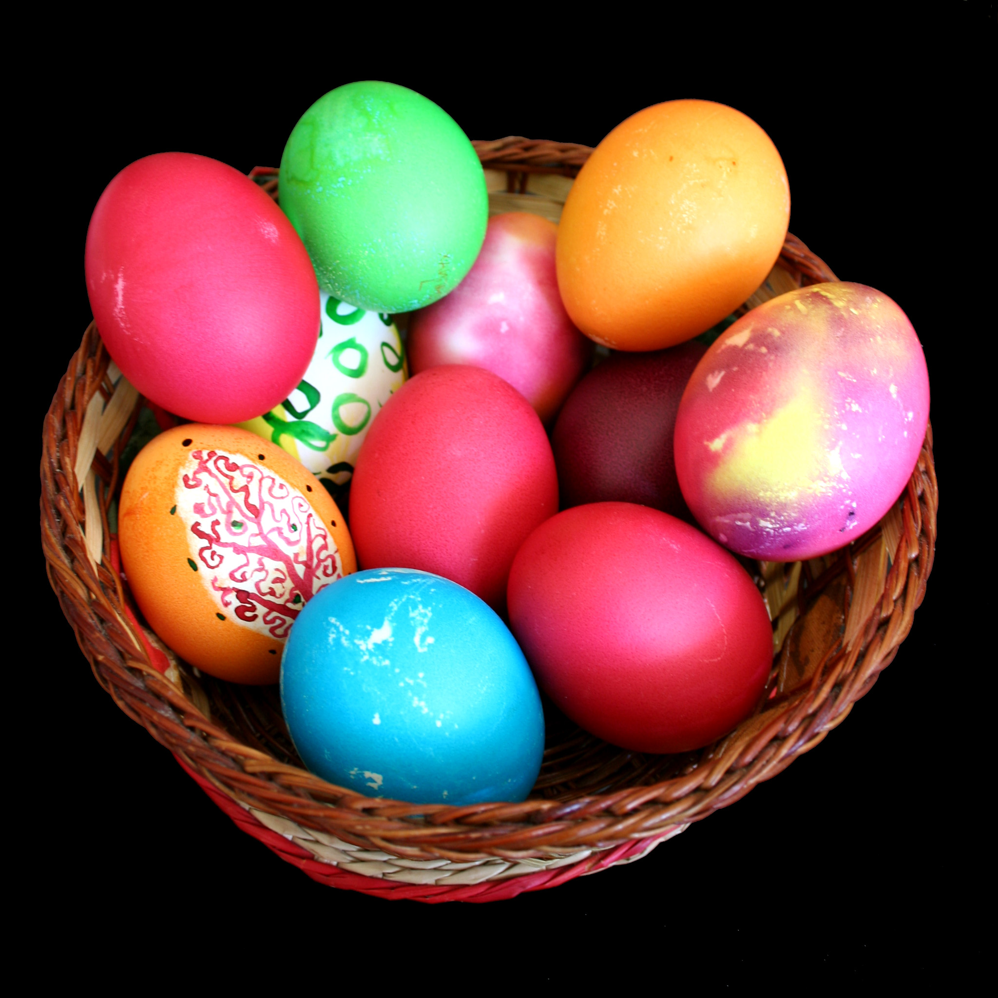 Bulgarian orthodox Easter Eggs.